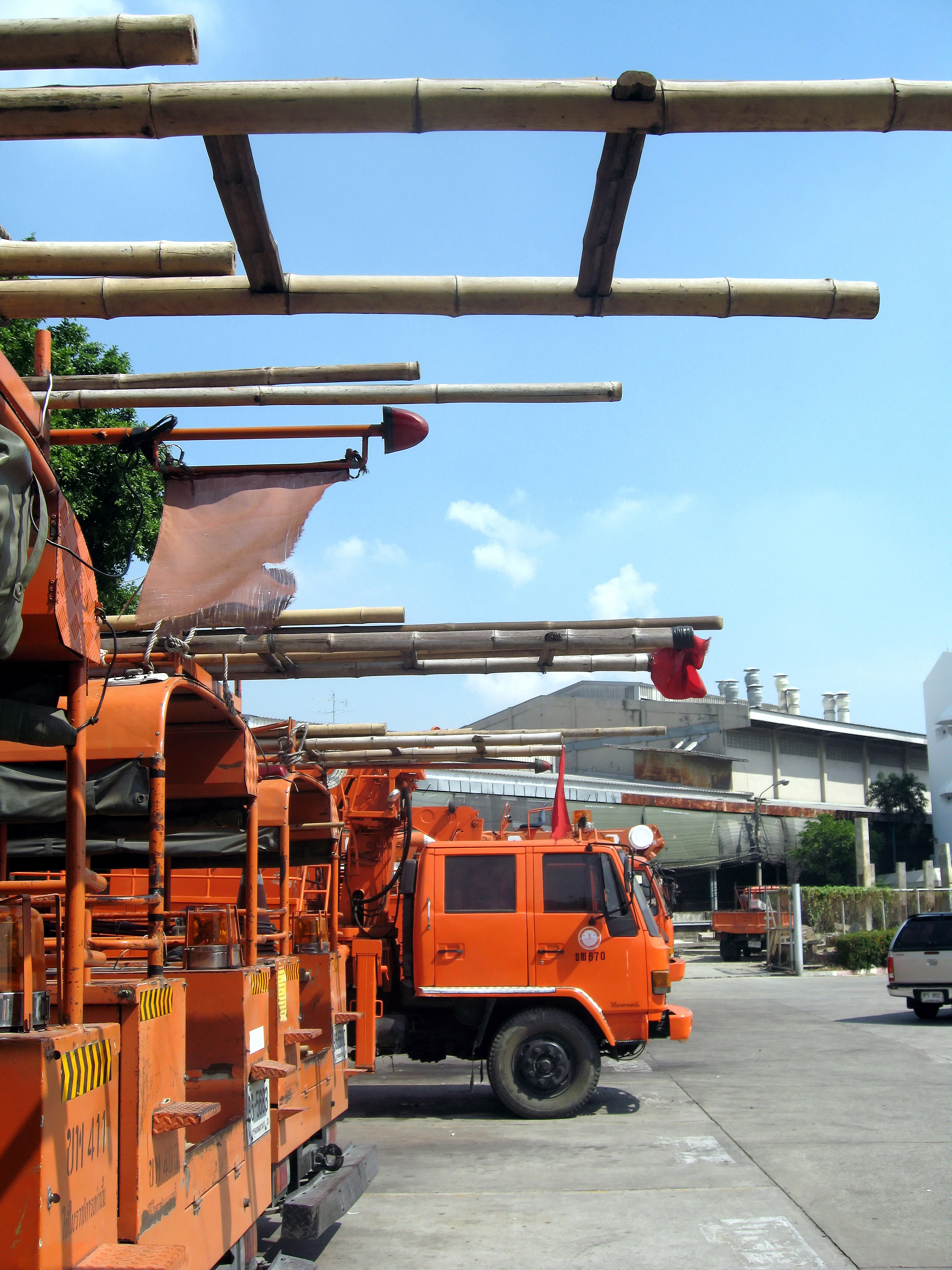 การไฟฟ้าบางพลี[Metropolitan Electricity Authority-Bang Pli]